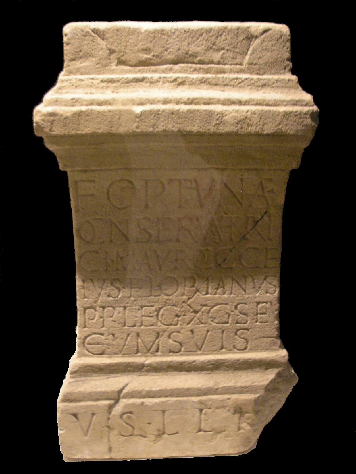 Votive altar for Fortuna Conservatrix, 222-235 A.D. Sandstone. Inscription: M. Aurelius Cocceius, primus pilus of the Legio X Gemina Severiana, with his people, to Fortuna Conservatrix. The vow was redeemed voluntarily, happily and accordingly.